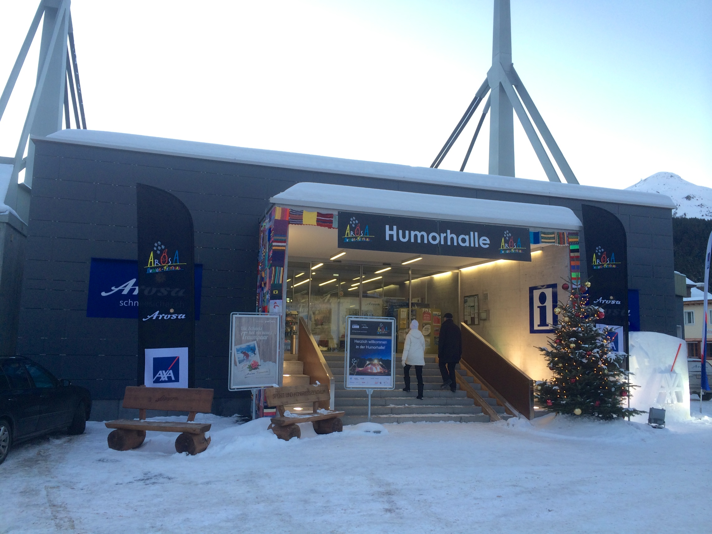 Entrance to "Humor-Hall" (Arosa Humor-Festival) at SKZA, Arosa